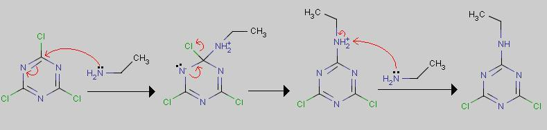 Mechanism for Simazine using MarvinSketch and MS Paint